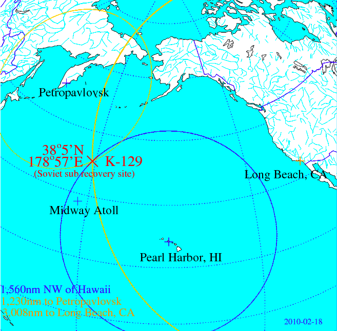 Map depicting the location of K-129 (Soviet Golf II class strategic ballistic missile submarine), which was (partially?) recovered by the USNS Hughes Glomar Explorer